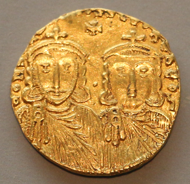 Byzantine antiquities in the Art Institute of Chicago